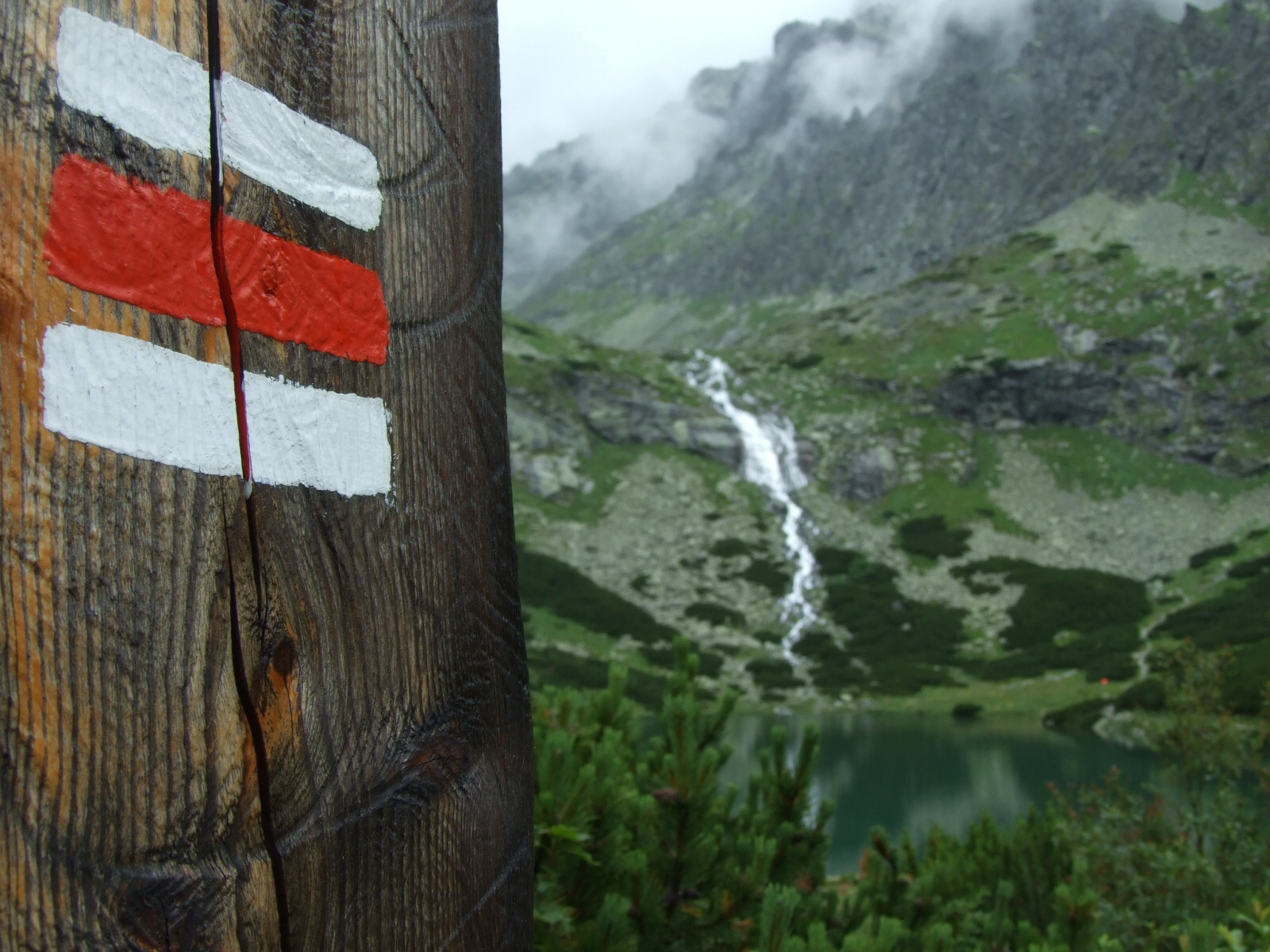 Hiking trail marking in Tatra Mountains, Slovakia